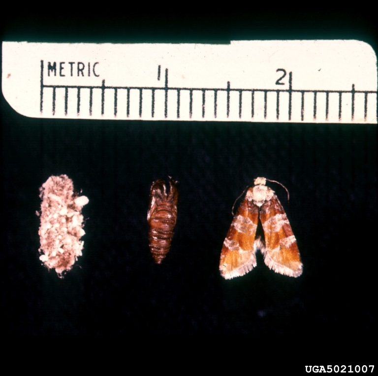 Rhyacionia_frustrana_life_cycle